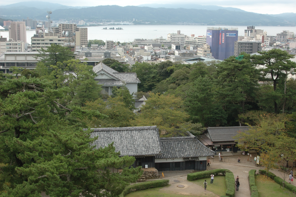 Ichi-on-mon gate,Matsue city and Lake Shinji view from the keep of Matsue castle